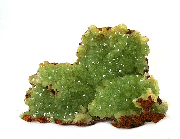 Adamite Locality: Ojuela Mine, Mapimí, Municipio de Mapimí, Durango, Mexico (Locality at ) Size: 14 x 8.7 x 2.1 cm. An extremely beautiful plate of luscious, lime-colored crystals of adamite. Excellent luster and color. Ex. Martin Zinn Collection.